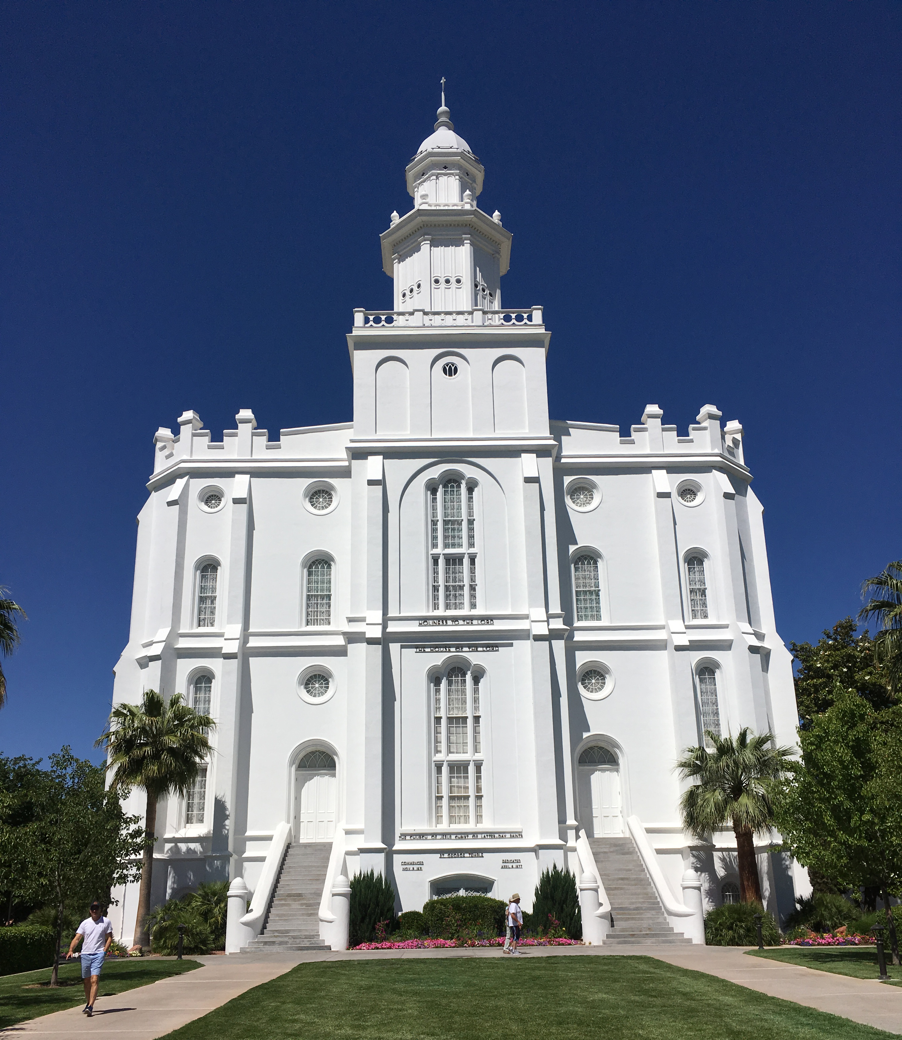 St. George Utah Temple.